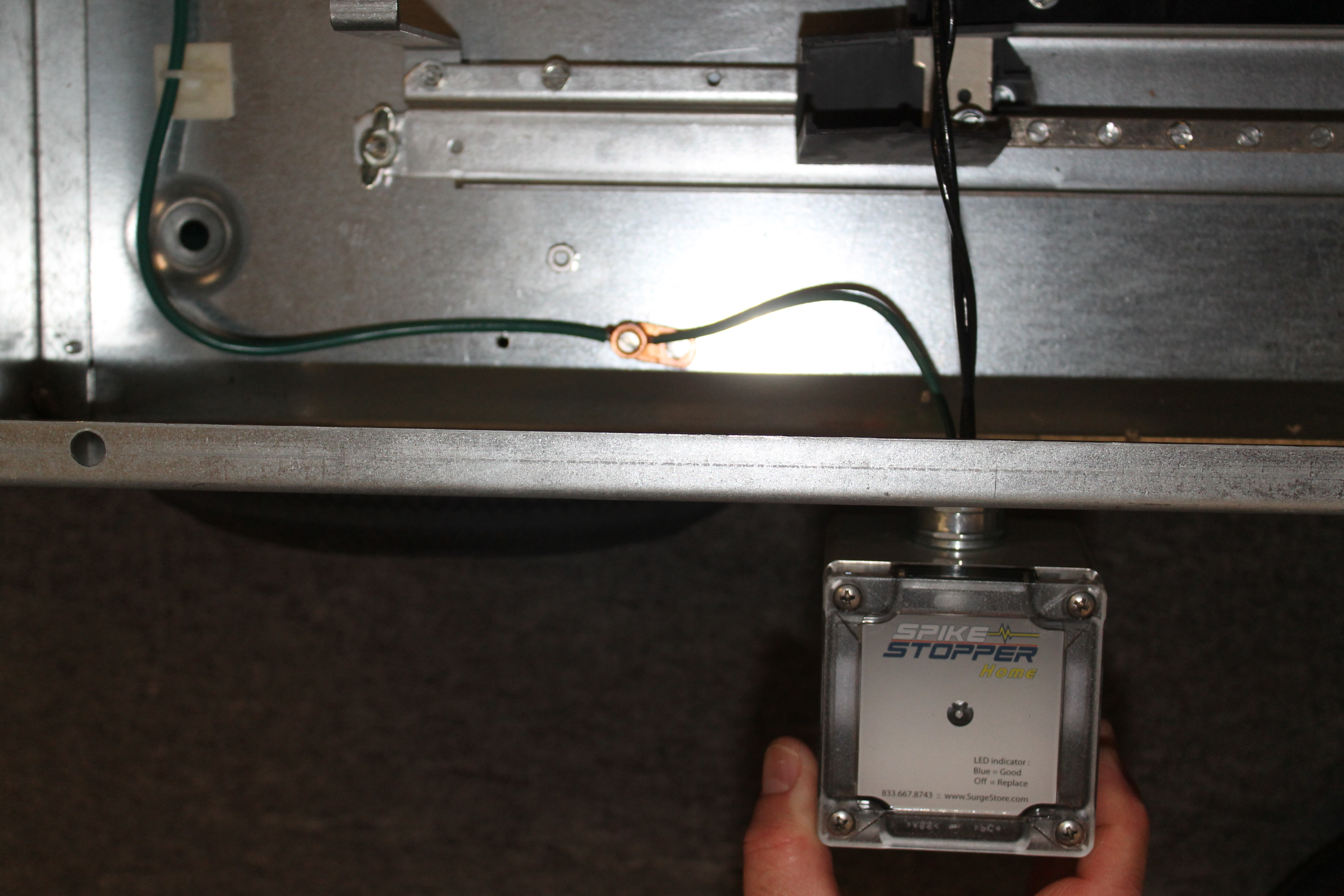 A Spike Stopper Home Surge Protector